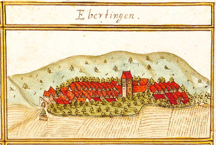 View of Eberdingen from the forest register books created by Andreas Kieser